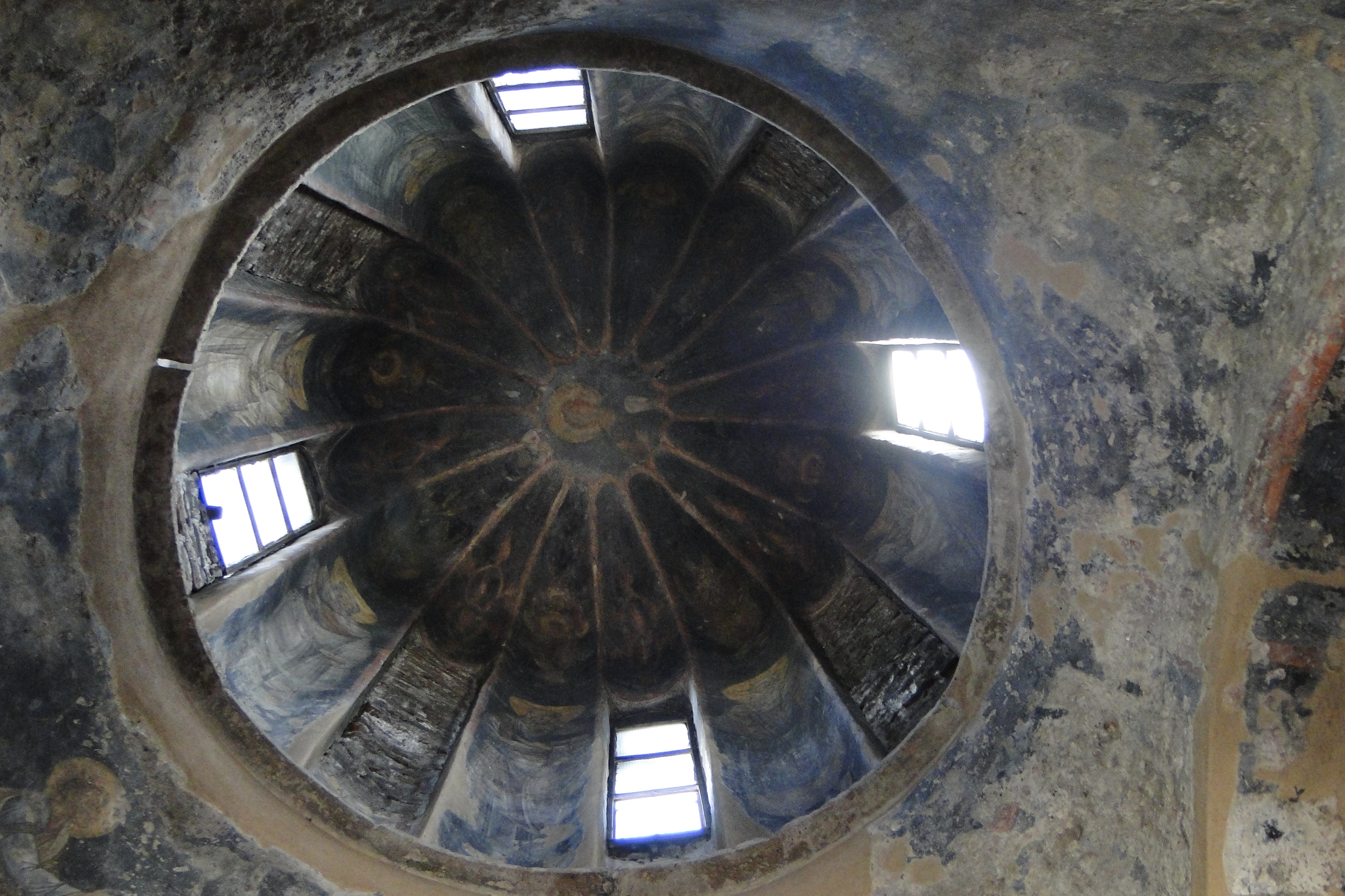 The Southern dome of the church of the Apostoles.